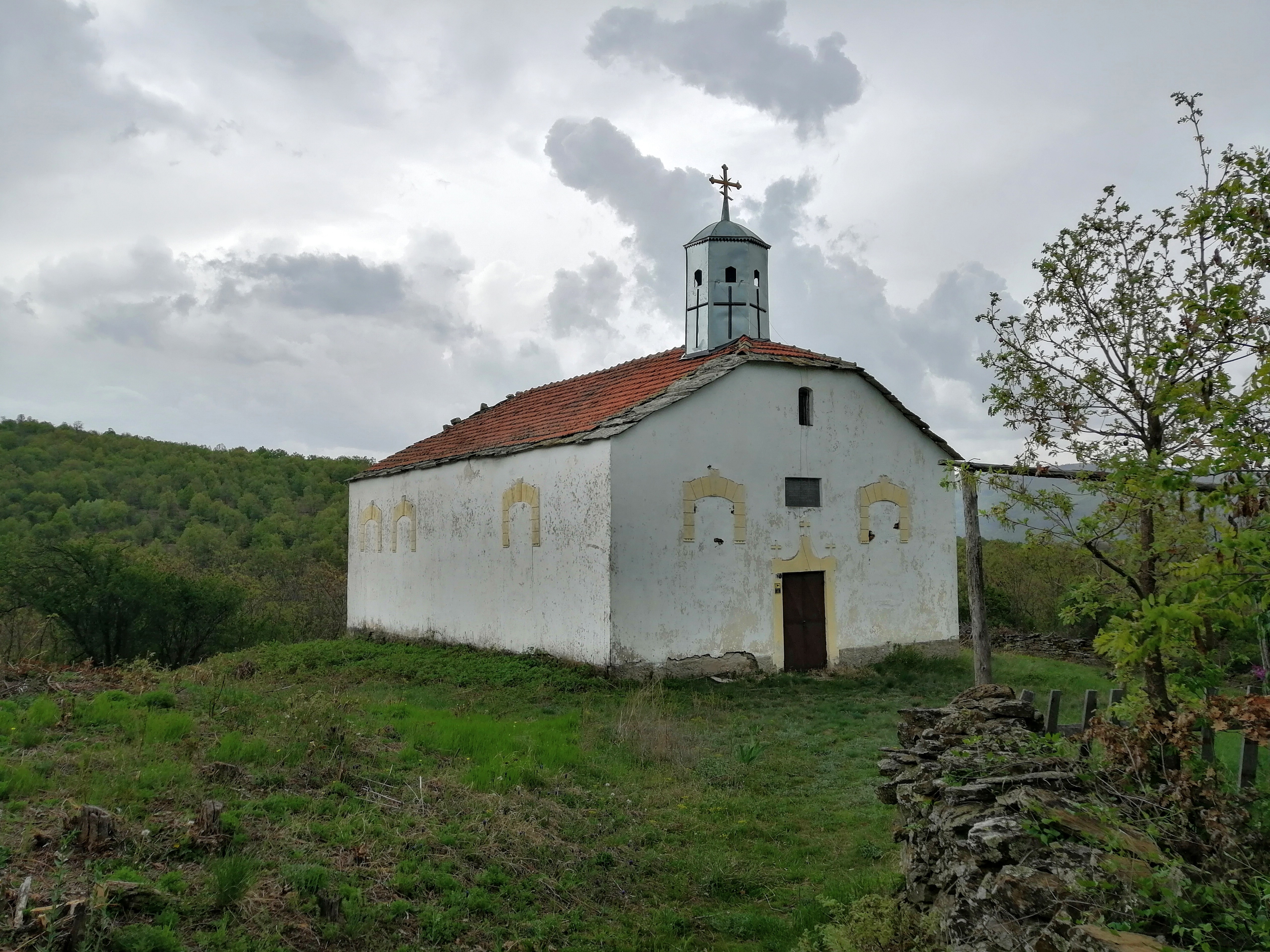 View of the St. Nicholas Chursh in the village Dlabočica, Kriva Palanka